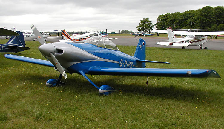 Vans RV4 light aircraft (G-PIPS). Photographed by Adrian Pingstone at Kemble Airfield, Gloucestershire, England, in May 2003 and released to the public domain.